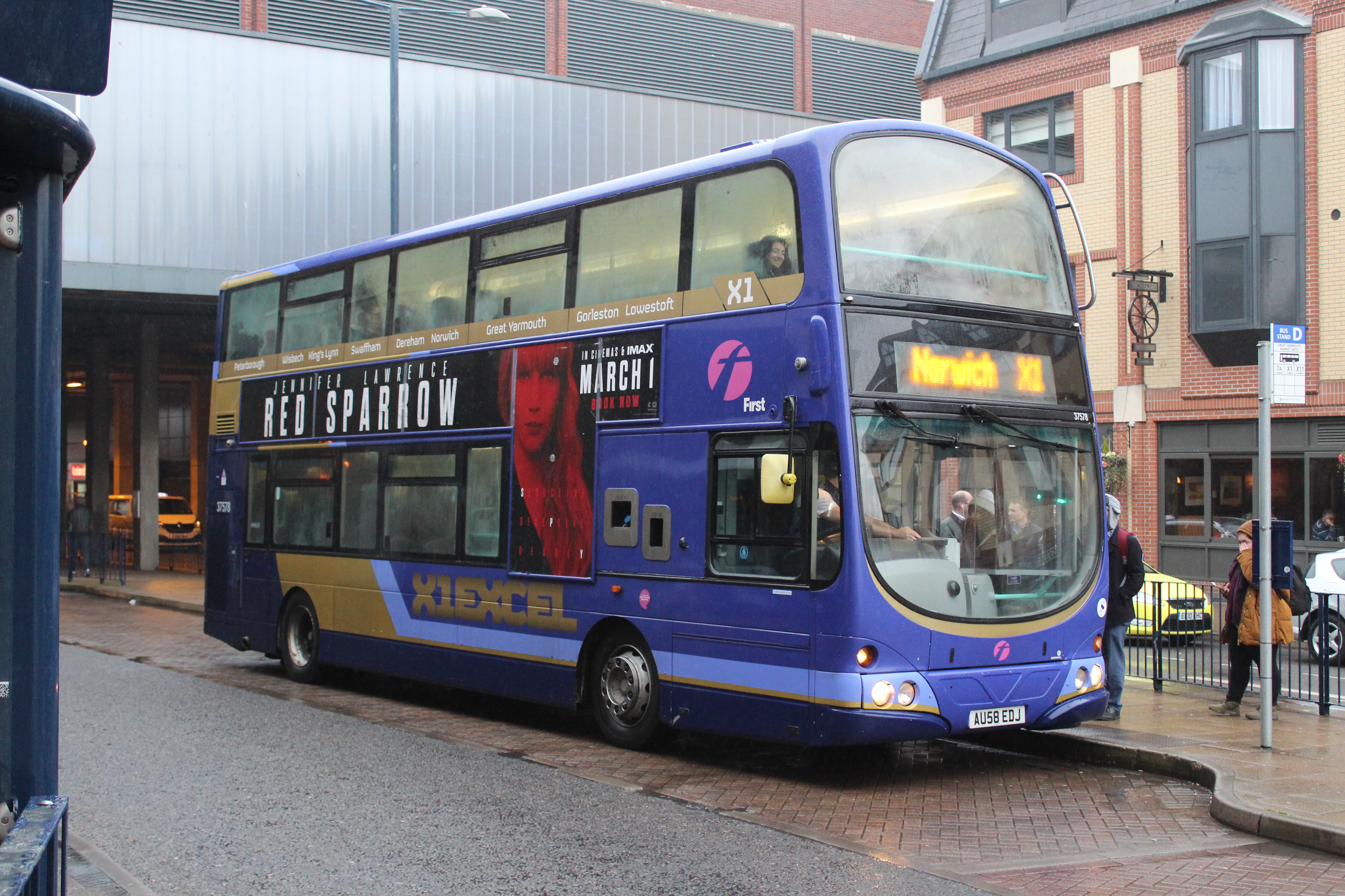 A Wright Eclipse Gemini-bodied Volvo B9TL used on Excel feeder services between Norwich and Lowestoft, seen in Great Yarmouth.